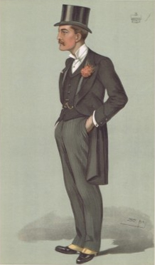 Caricature of The Marquis of Bath. Caption read "Frome".